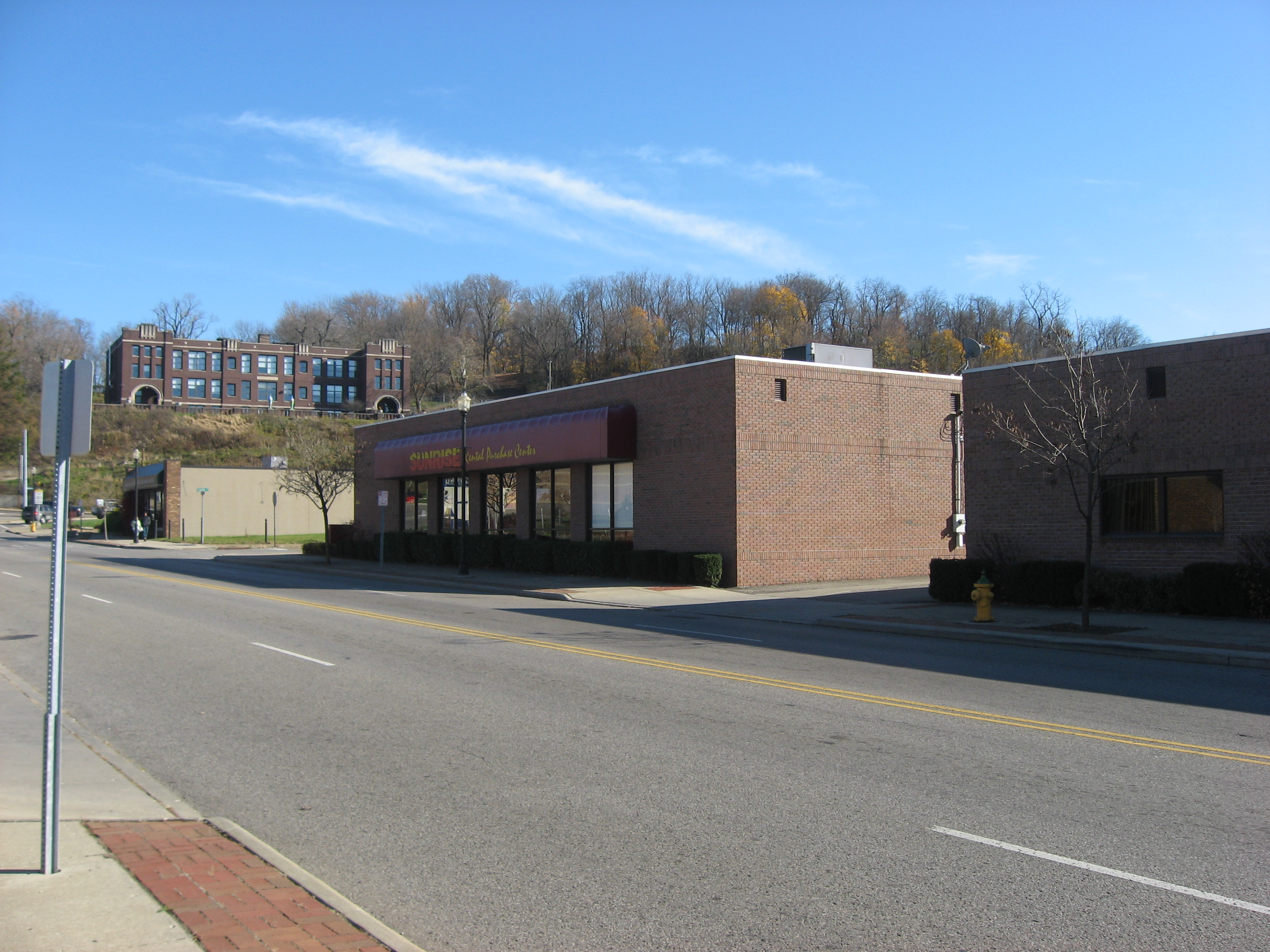 Site of the Arlington Hotel at 722 Main Street (U.S. Route 40) in Zanesville, Ohio, United States. Built in 1883, the site is listed on the National Register of Historic Places, even though the hotel has been destroyed.